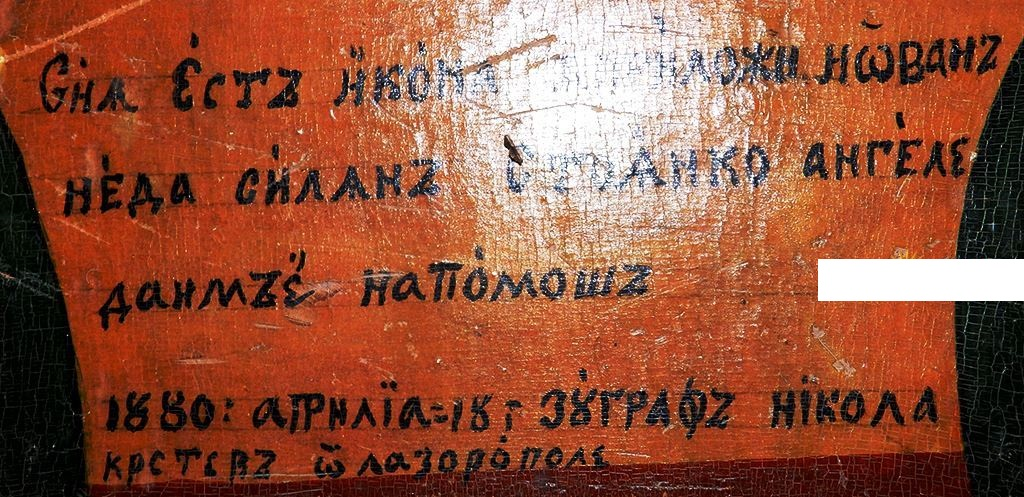 Archangel Michael Icon by Nikola Krastev 1880 Detail